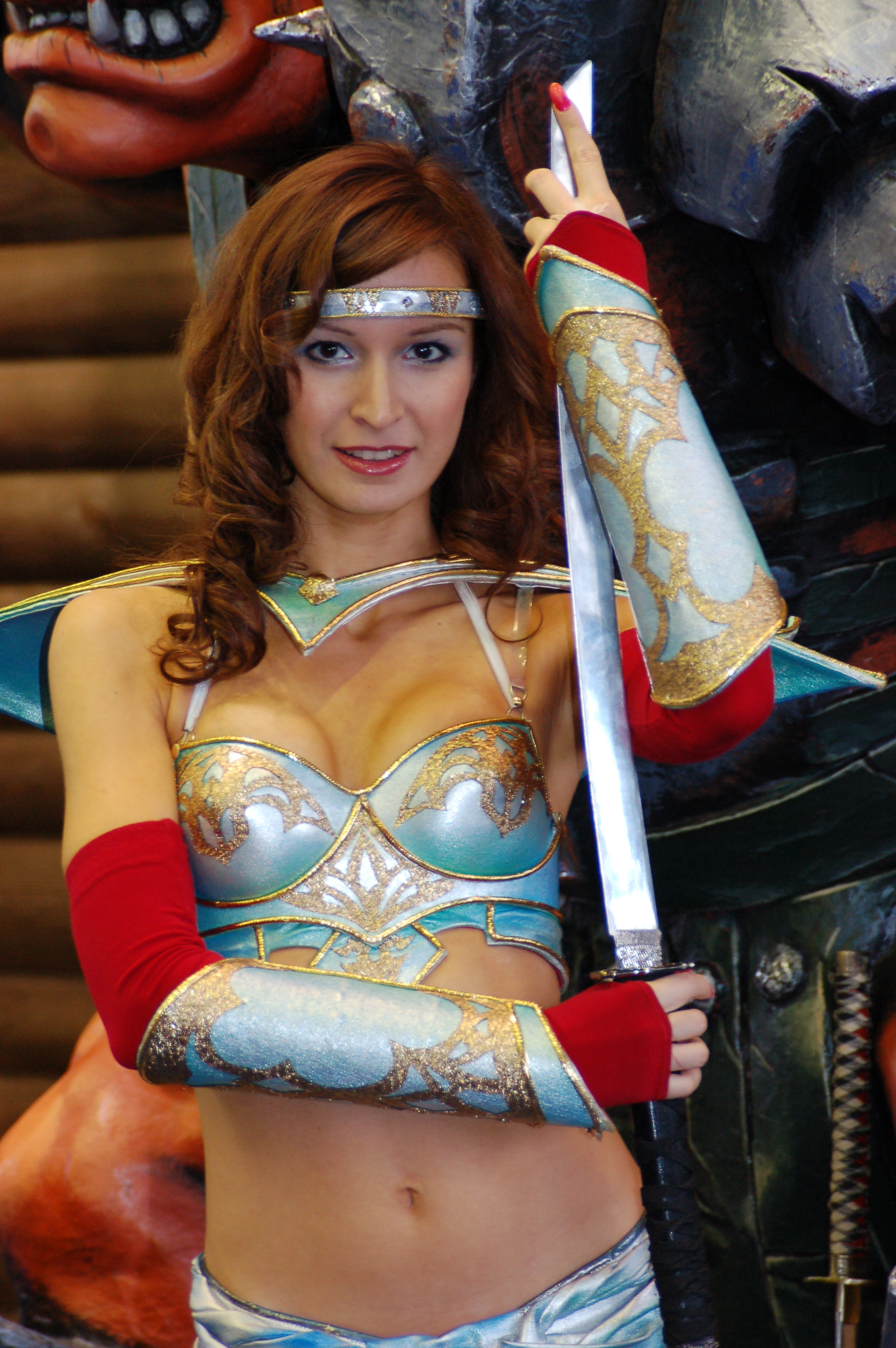 Fantasy Wars girl Nastya